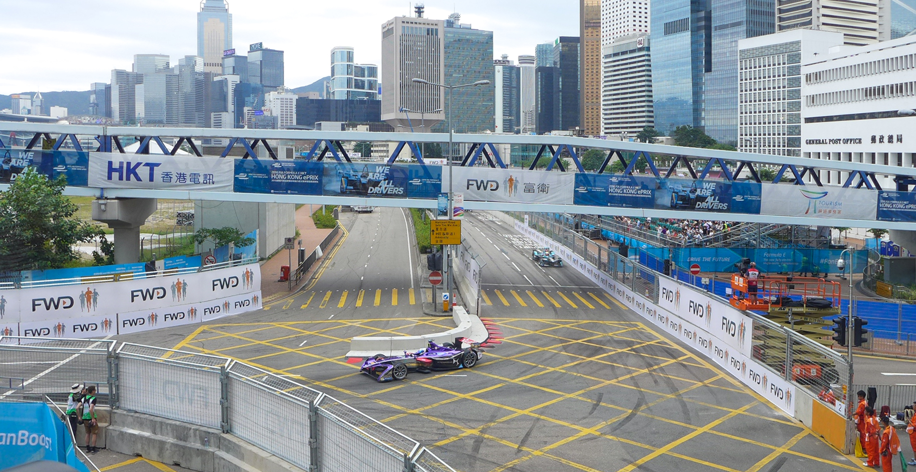 Lung Wo Road Formula Race